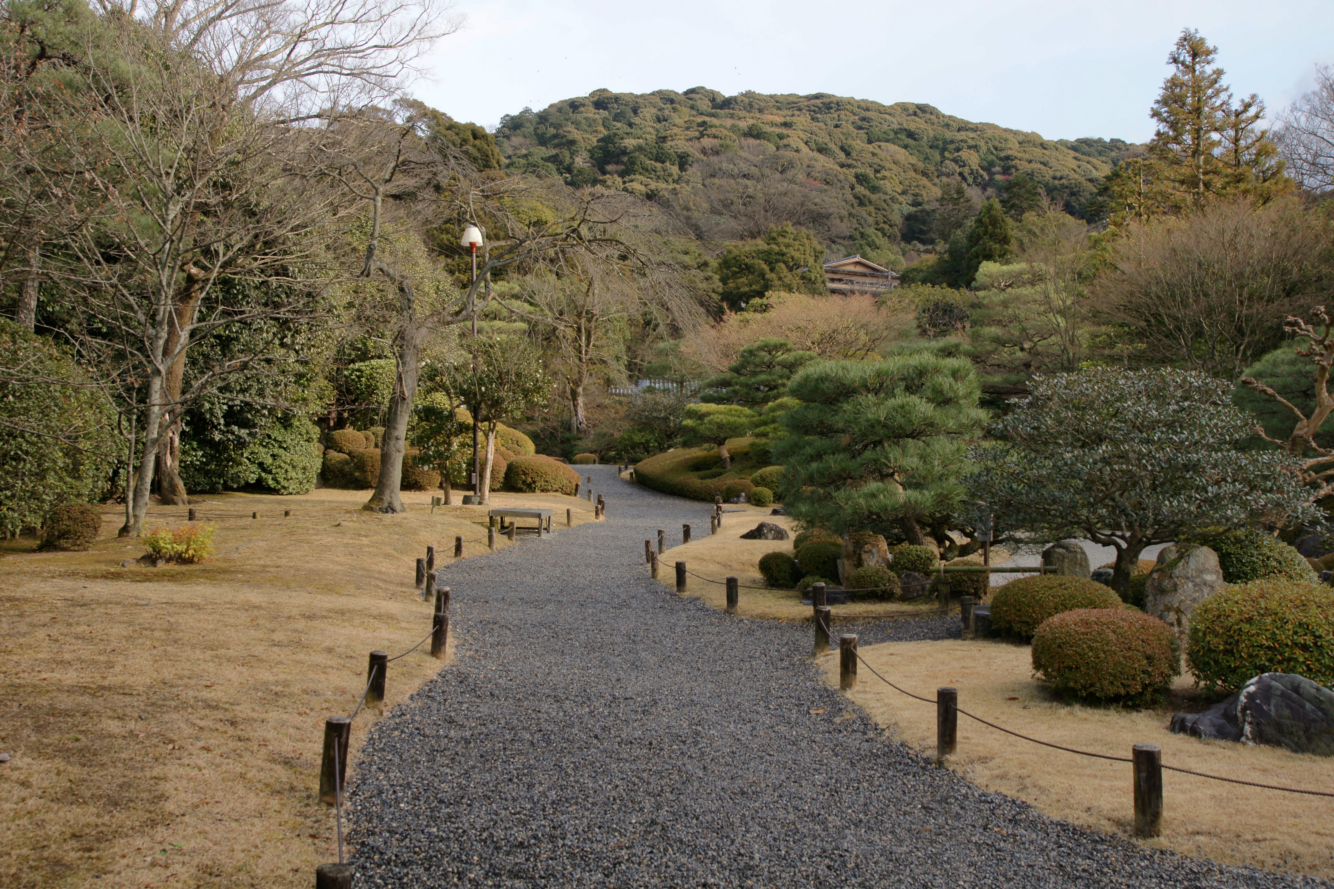 Yuzen-en, Kyoto, Kyoto Prefecture, Japan